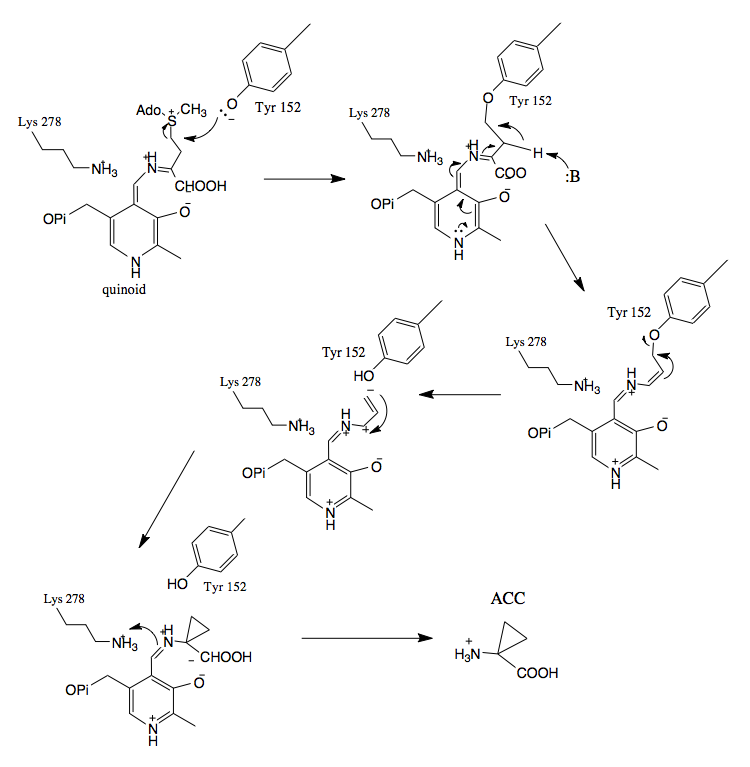 last step